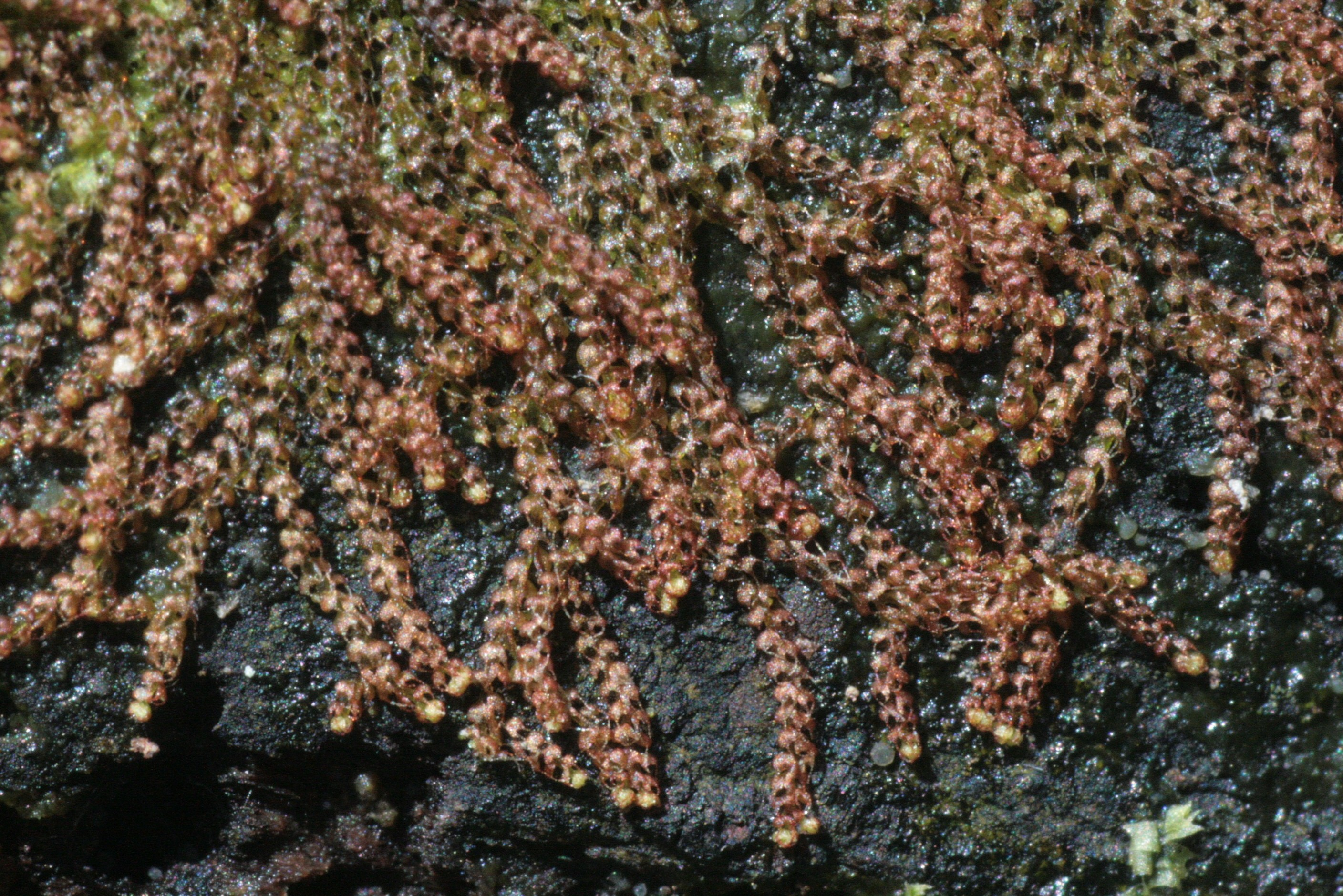 Nowellia curvifolia